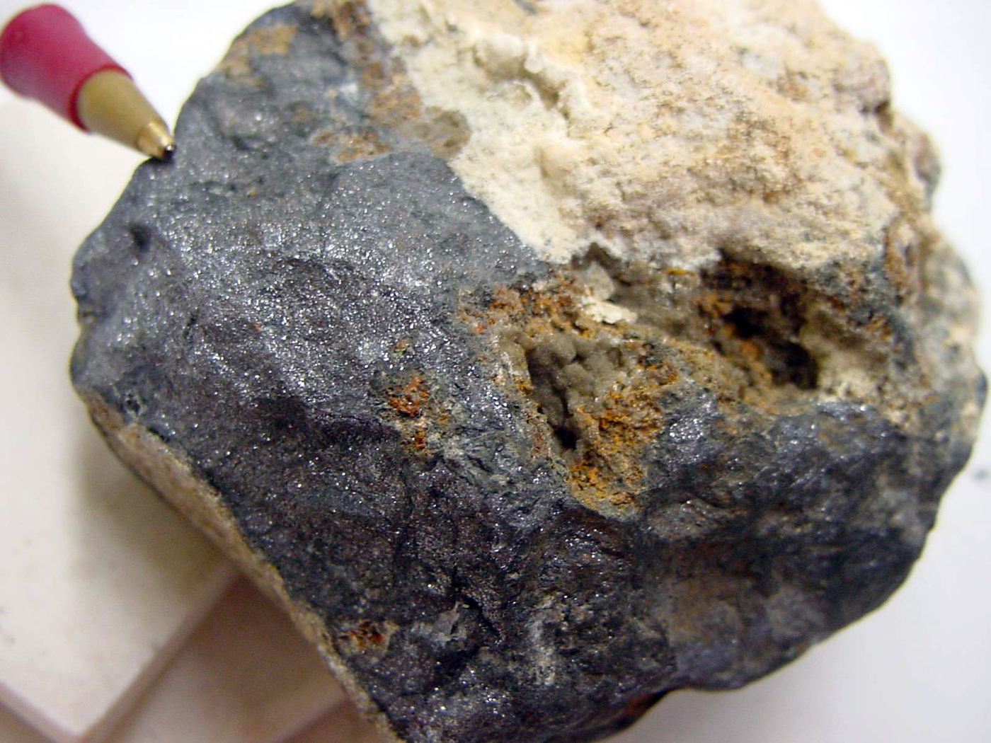 Bismite. Pen for scale. No locality given. Mineral collection of Brigham Young University Department of Geology, Provo, Utah. Photograph by Andrew Silver. BYU index 4-8051, Bi_2O_3.